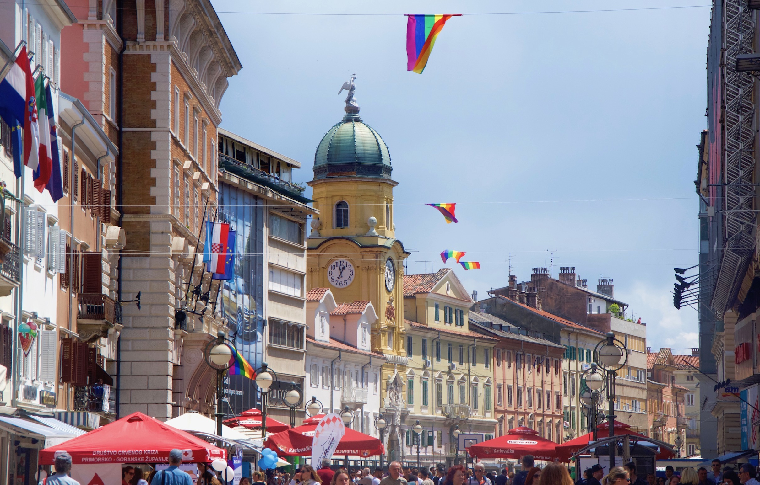 Korzo